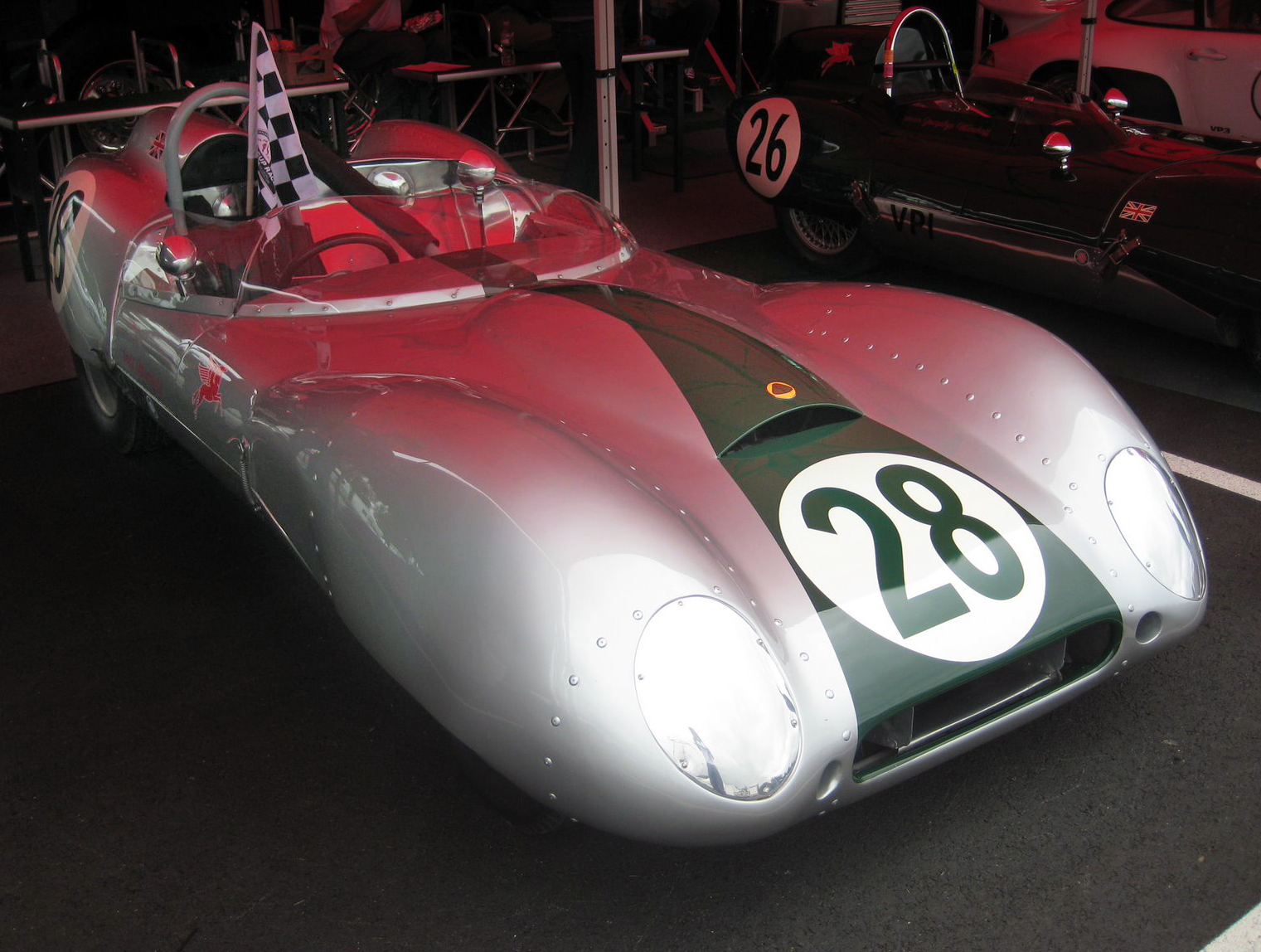 1959 Lotus 15 Series III (s/n 0622, Coventry-Climax engine FPF 1054) at the Laguna Seca Historics, 2009.